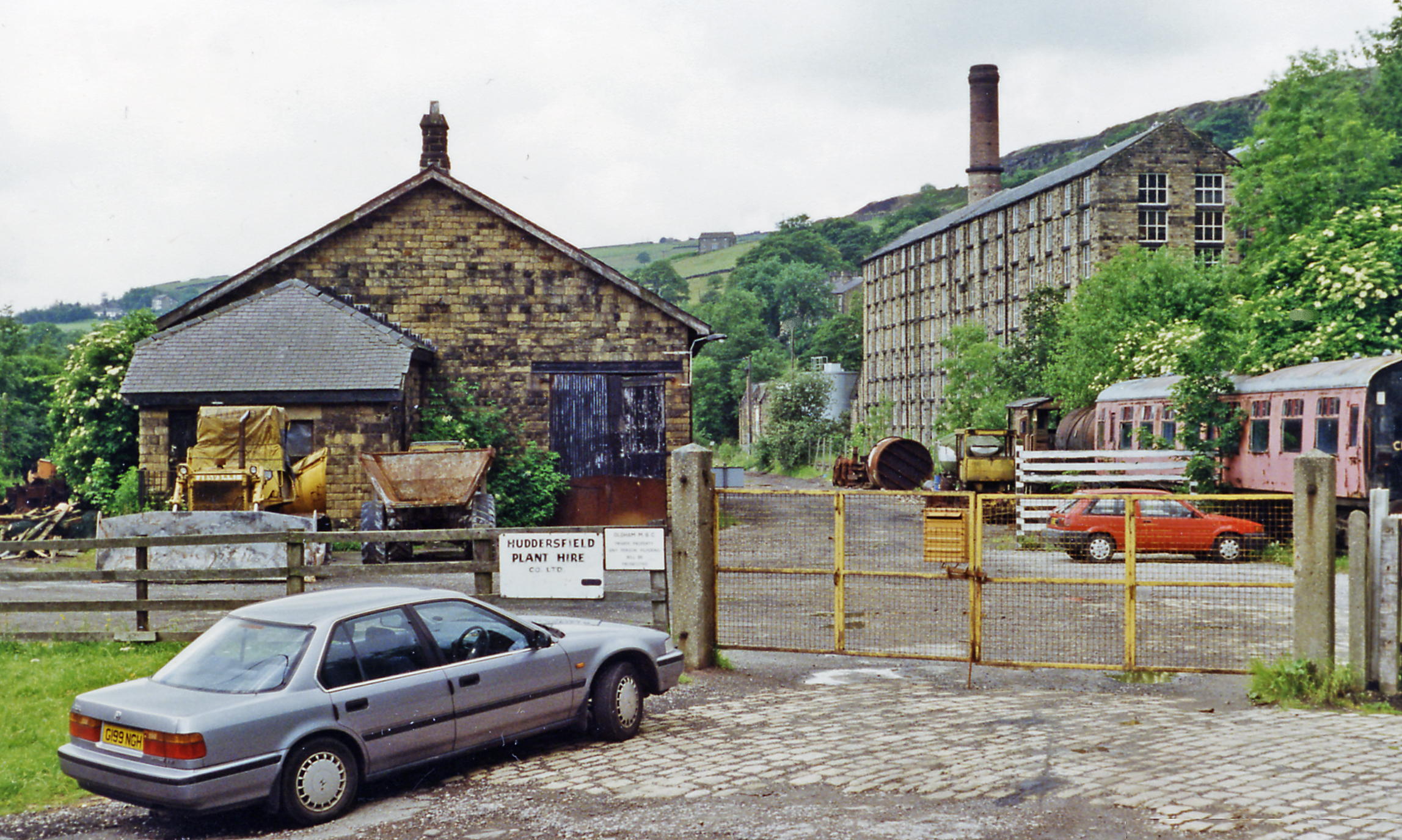 Delph station (remains), 1996. View SW, towards Greenfield: ex-LNWR terminus of short branch from Greenfield. The branch was closed to Passengers 2/5/55, to goods 4/11/63 - but it looks as if some track remains over 30 years later. (My Honda Accord is prominent).